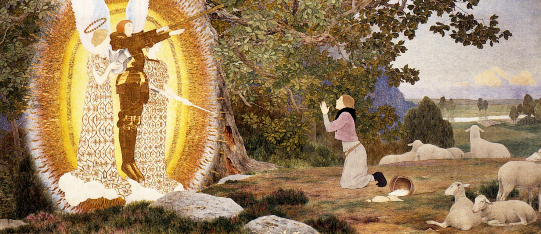 La vision et l'inspiration de Jeanne d'Arc